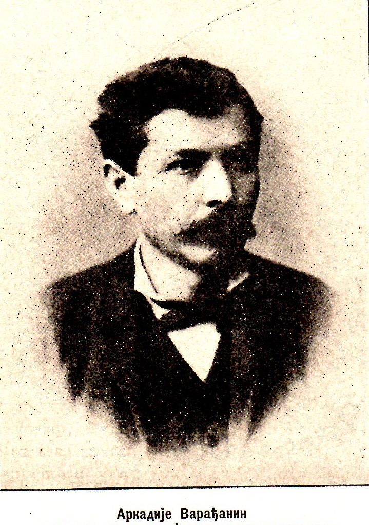 Picture from Orao, illustrated calendar, 1899, page 171